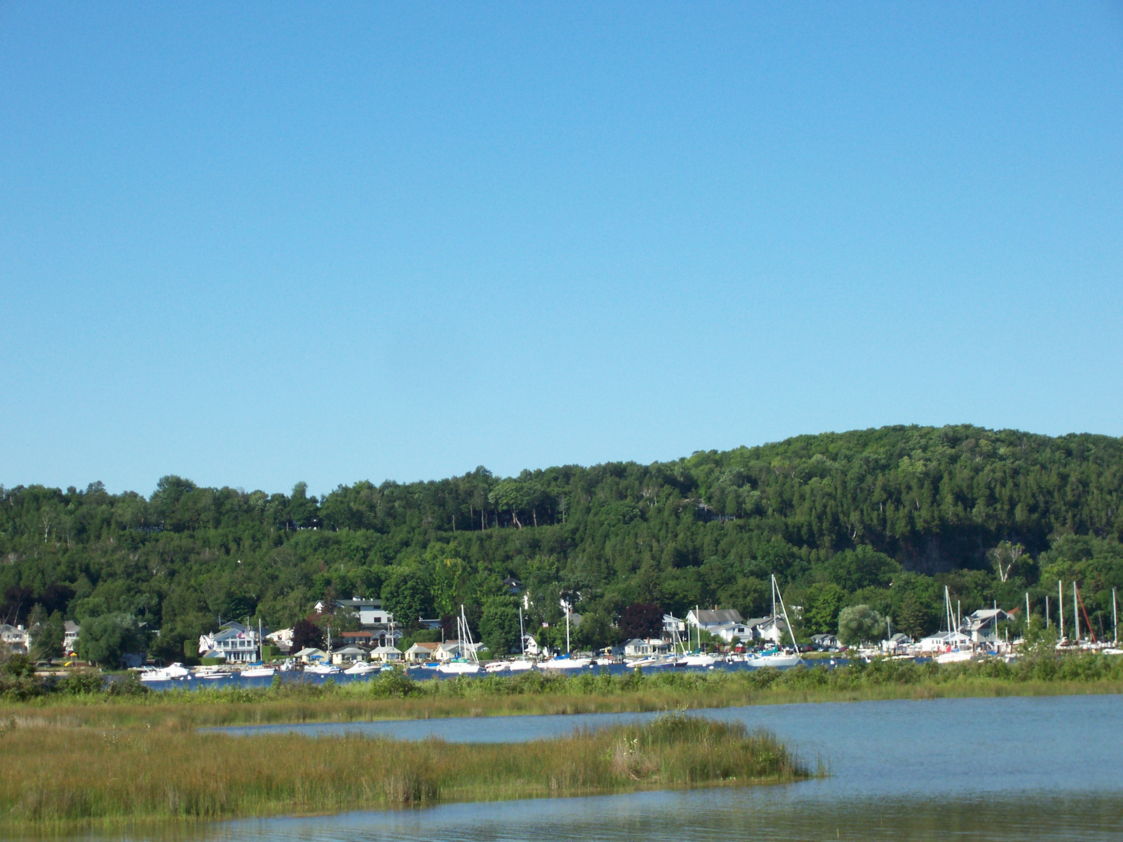 Looking at the marina for Fish Creek, Wisconsin from Peninsula State Park.